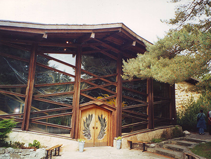 English